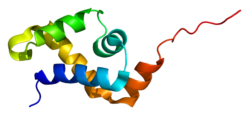 Structure of the SATB1 protein. Based on PyMOL rendering of PDB 1yse.